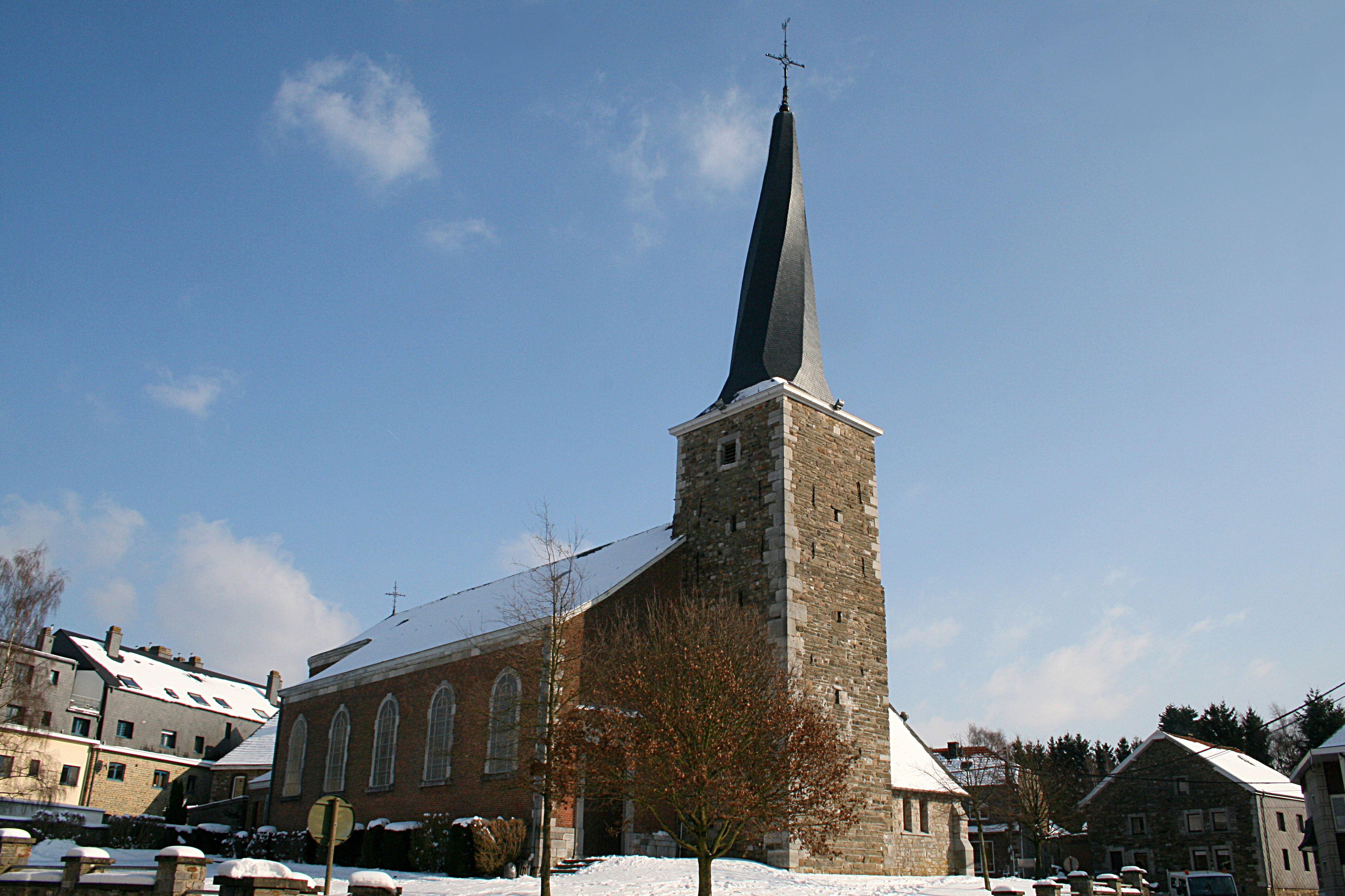 Jalhay (Belgium), the Saint Michael's church and its twisted church tower (1840).